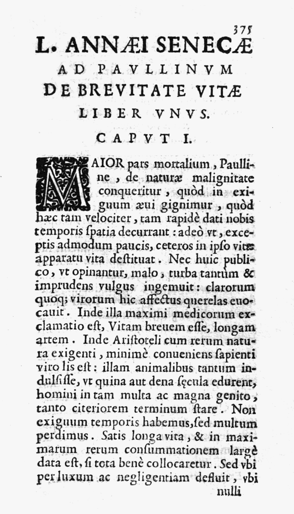 Page 375 of L. Annæi Senecæ philosophi Opera: tribus tomis distincta. Tomus 1. (1643). Published by Francesco Baba. (WorldCat)